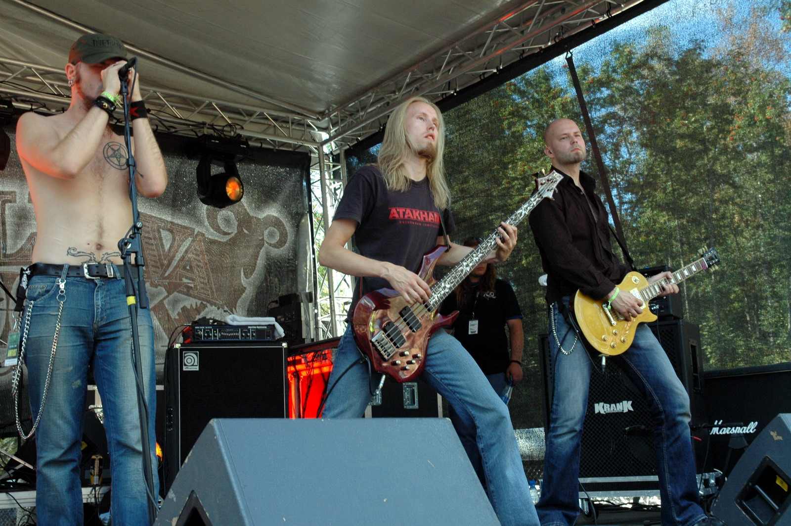 Swallow the Sun band in 2006